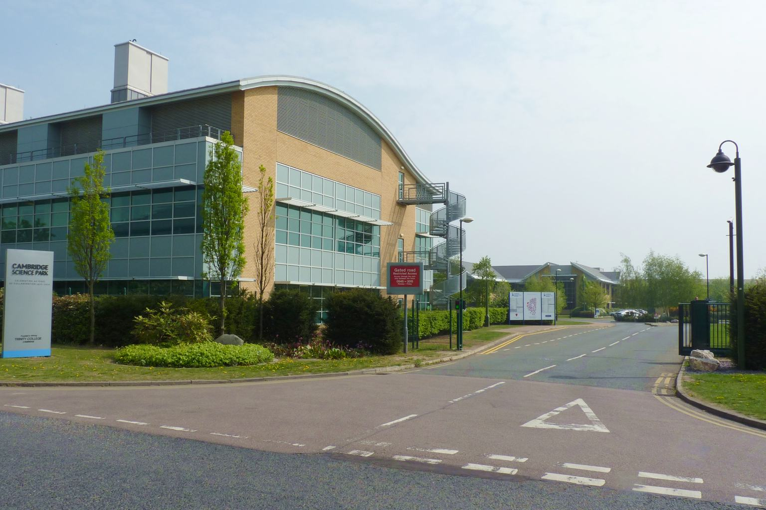 Cambridge Science Park rear entrance in April 2011.